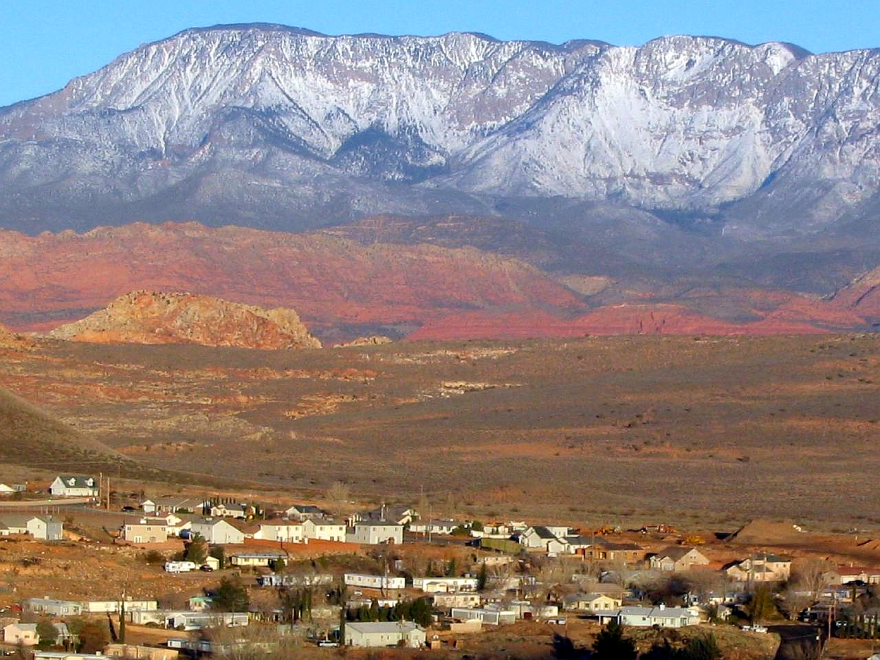 Sunrise over Hurricane, Utah.